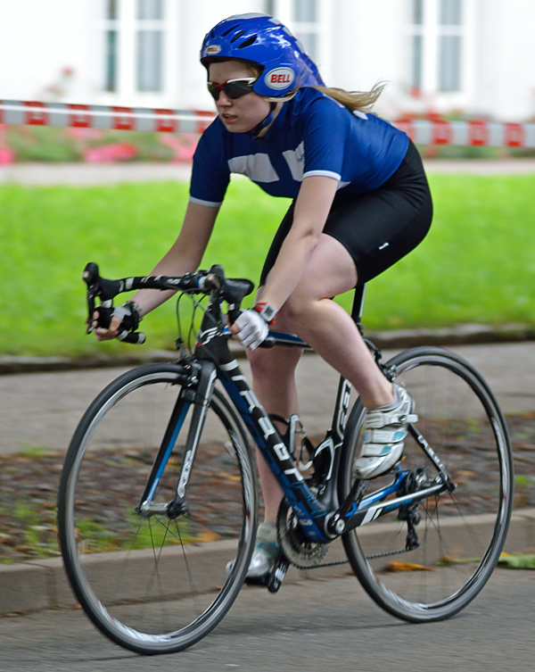 Rosa Törmänen from the National Team Finnland during the Women's Tour of Thuringia 2012 in Zwickau, Germany.